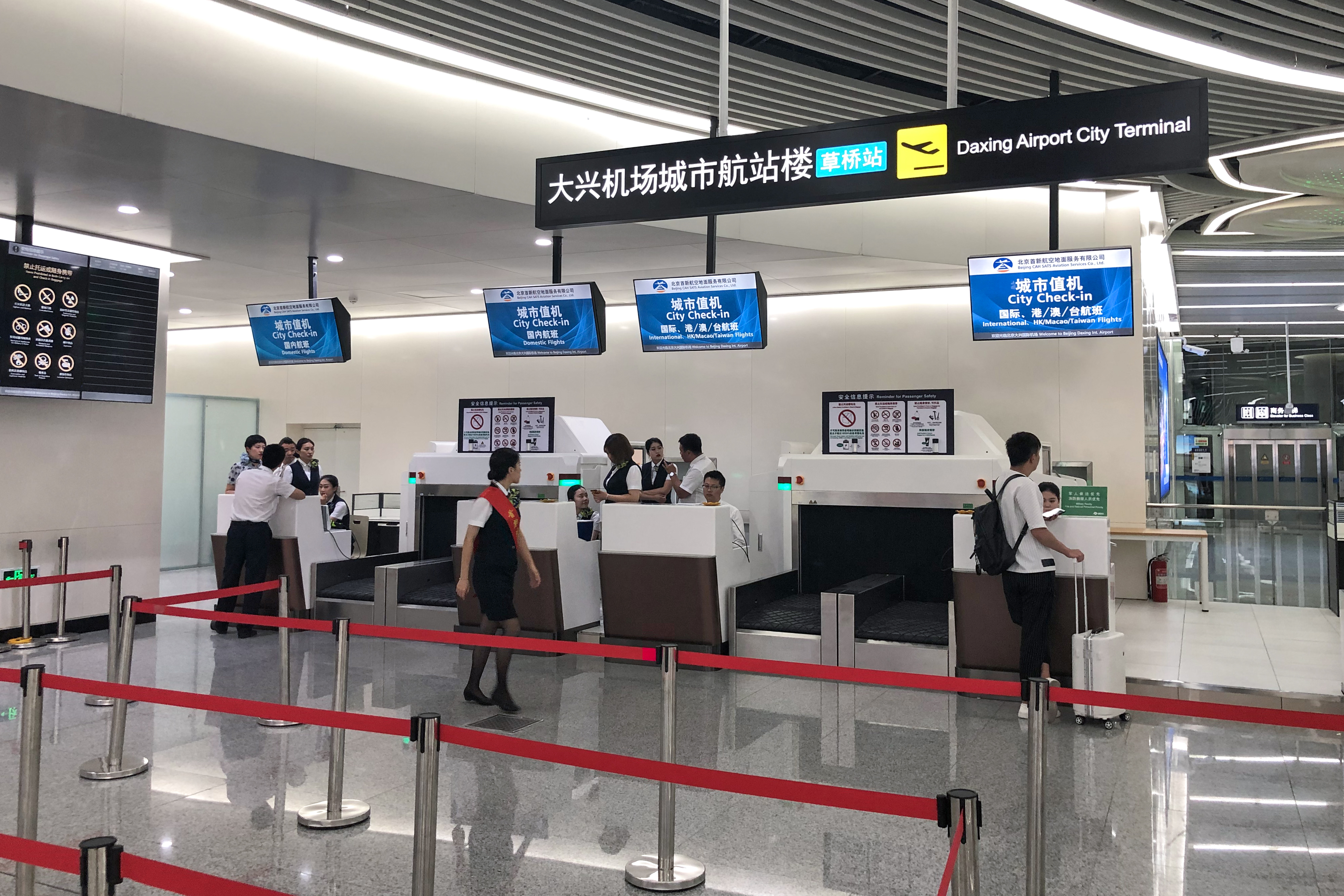 4 counters on the southwest corner.